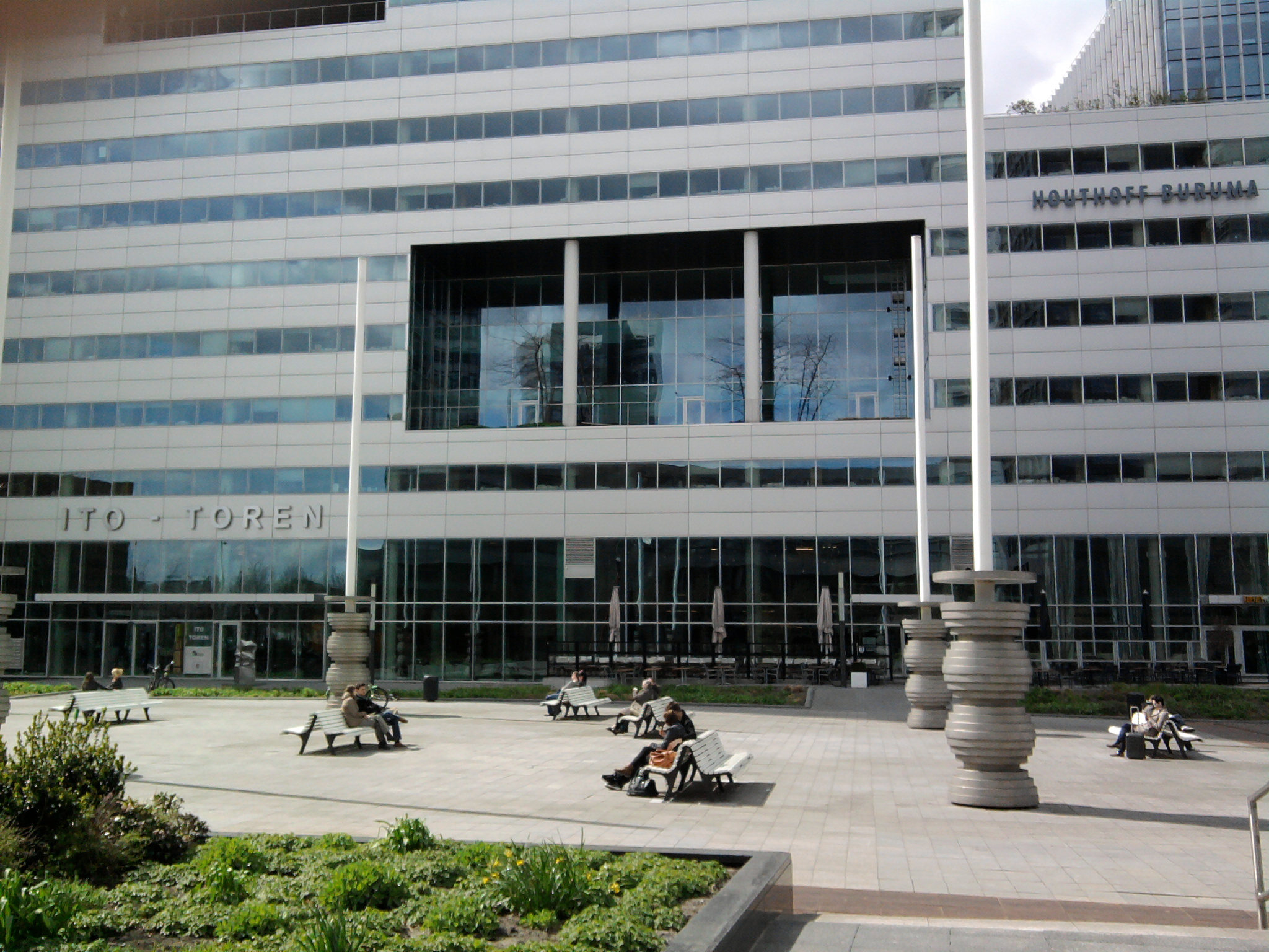 Gustav Mahlerplein, a central square in the Zuidas business district in Amsterdam, with the ITO-tower.